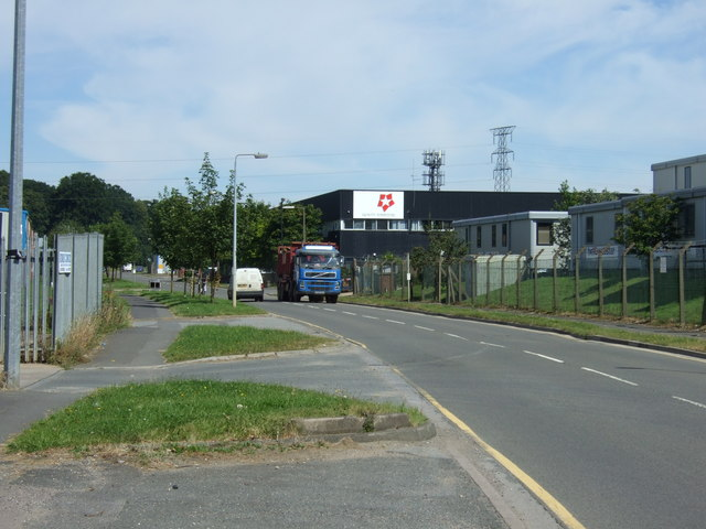 Alma Park Road heading north